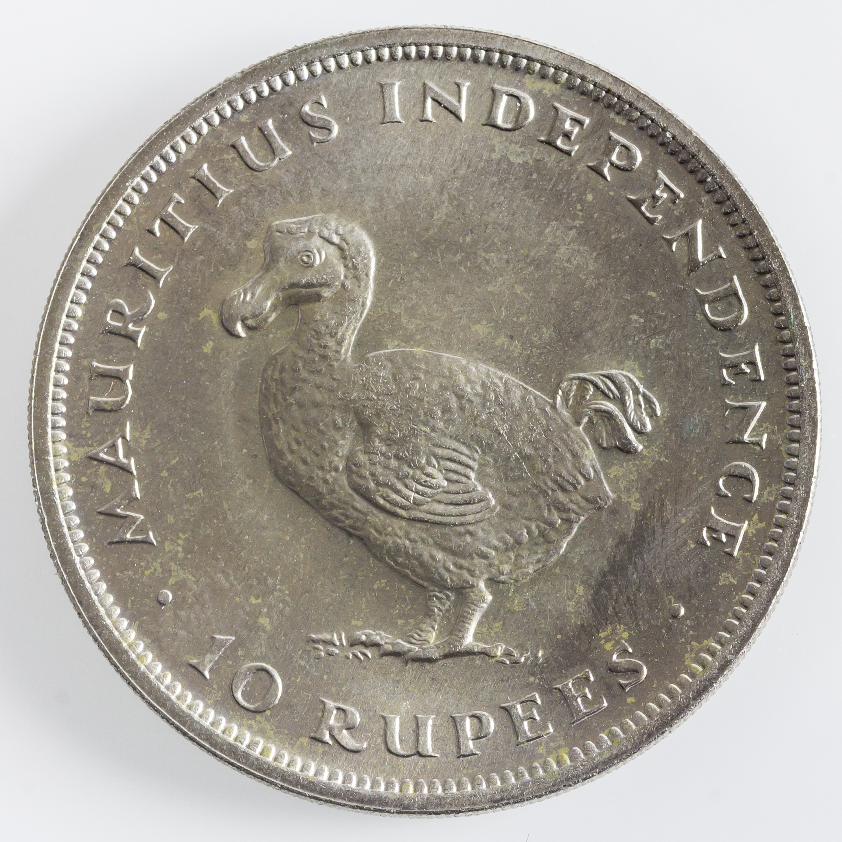 Mauritius 10 Rupees 1971 Elizabeth II(rev)